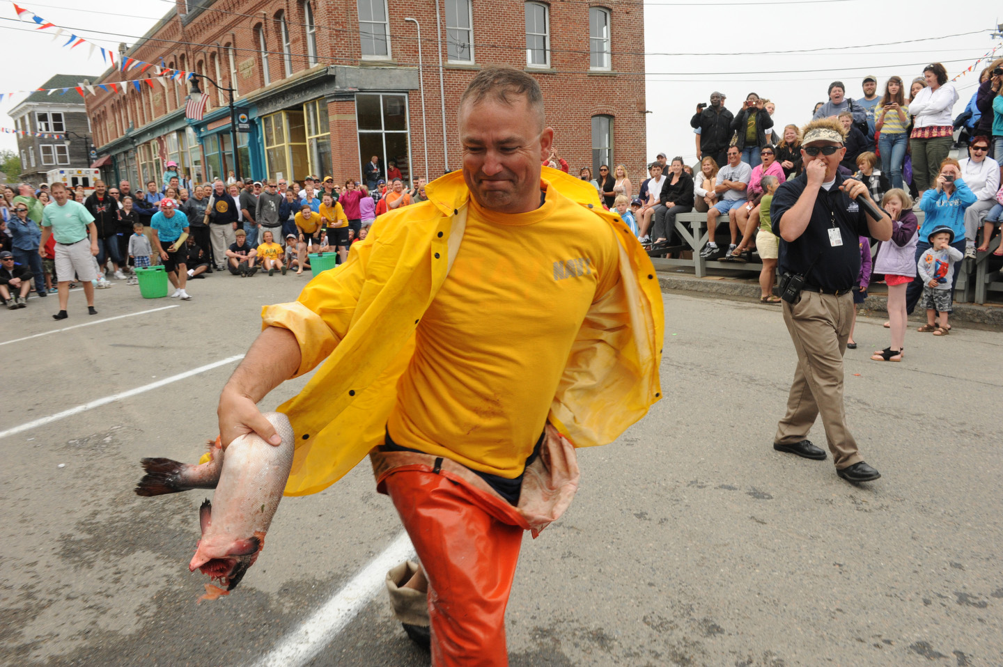 EASTPORT, Maine (July 3, 2011) Cmdr. Chris A. Nerad, commanding officer of the guided-missile destroyer USS Nitze (DDG 94), competes in the annual Codfish Race. Nitze is in Eastport for the city's annual Fourth of July Celebration.(U.S. Navy photo by Ensign Joe Keiley/Released)